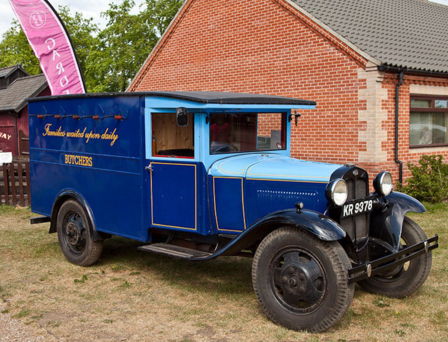 The Ford Model AA used in the 1971 film photographed at Bressingham Steam and Gardens